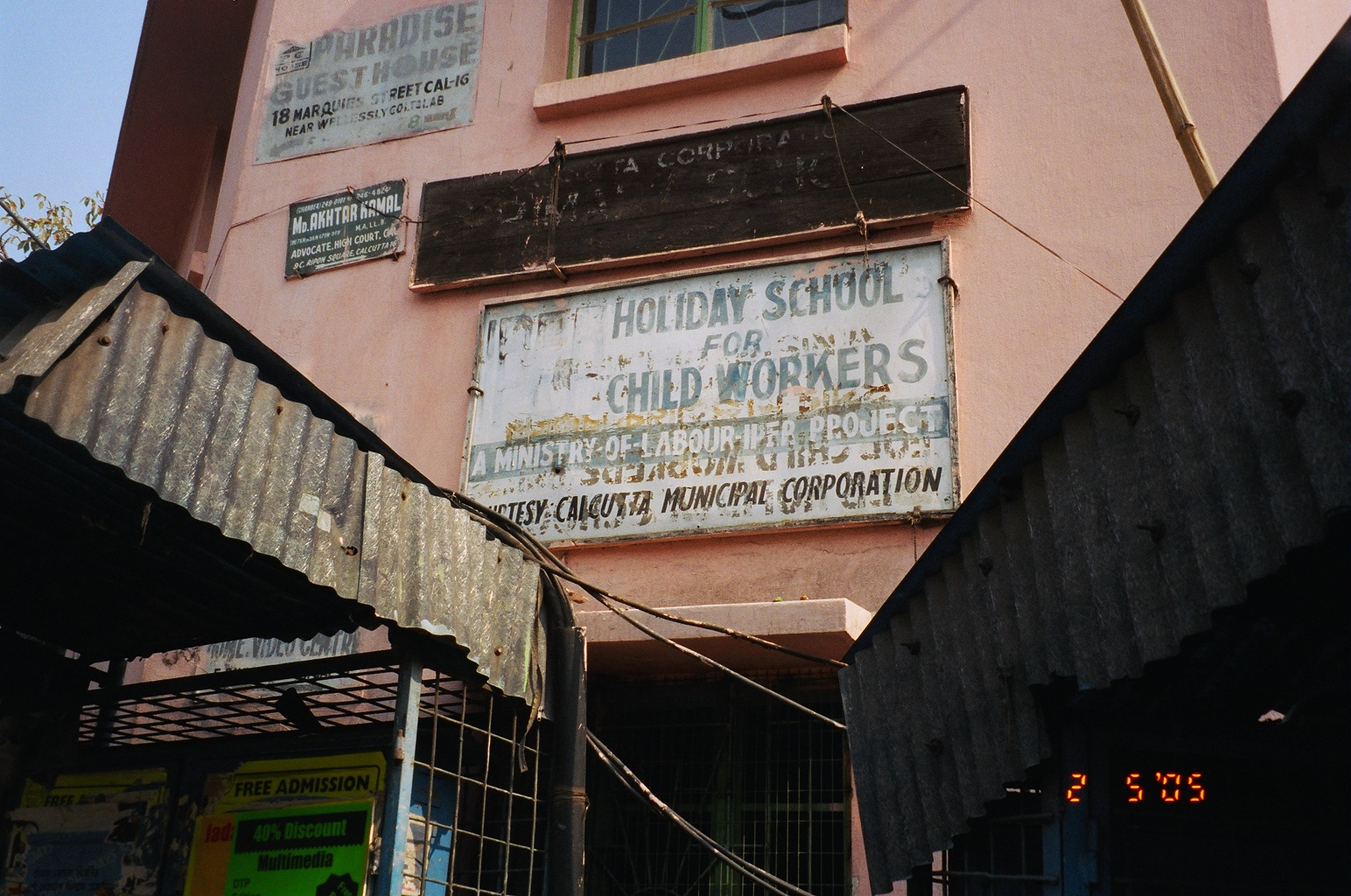 Holiday school for child workers in Kolkata, a public project.